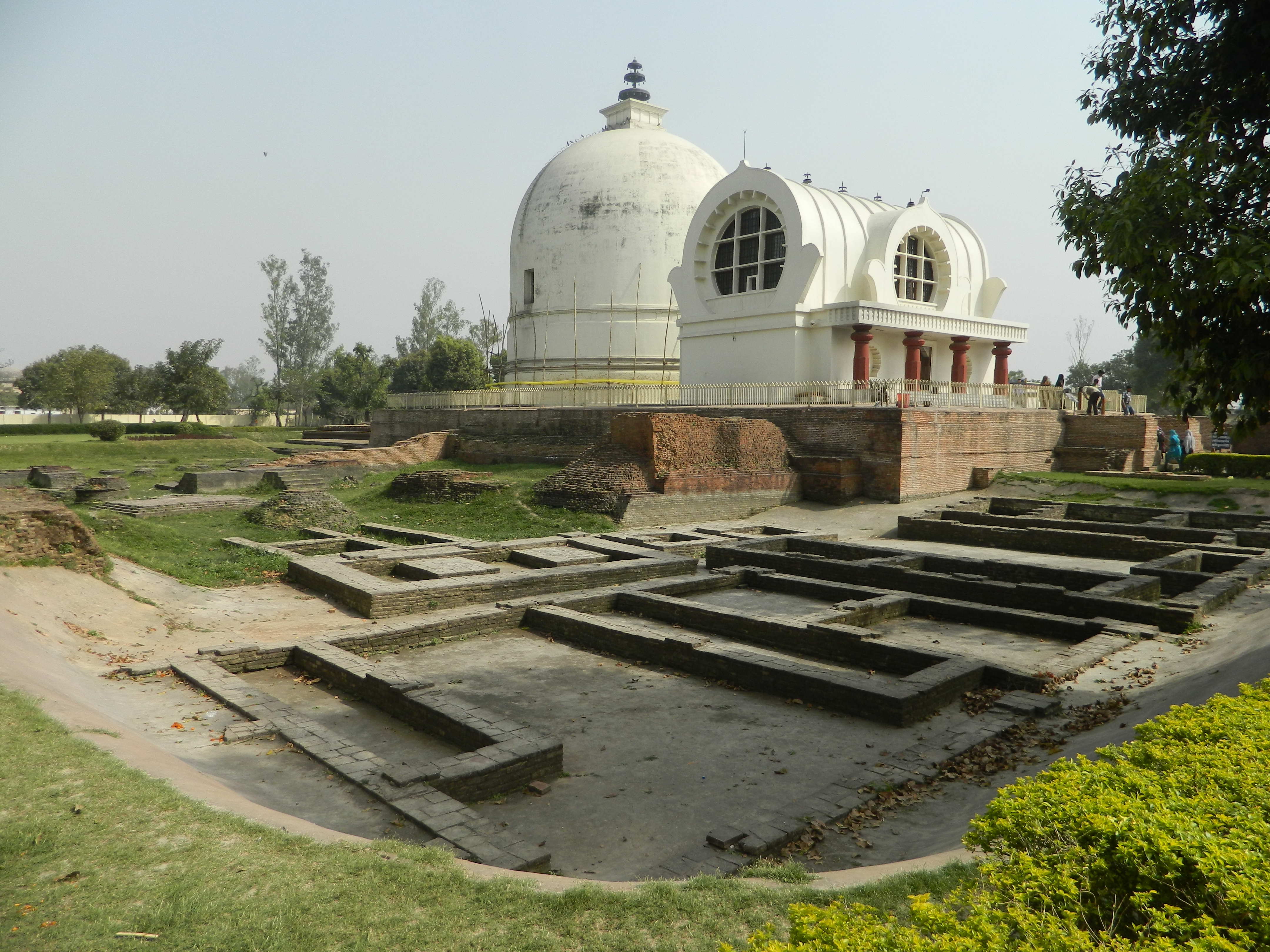 Gautam Buddha in the holy town of Kushinagar near Gorakhpur,India